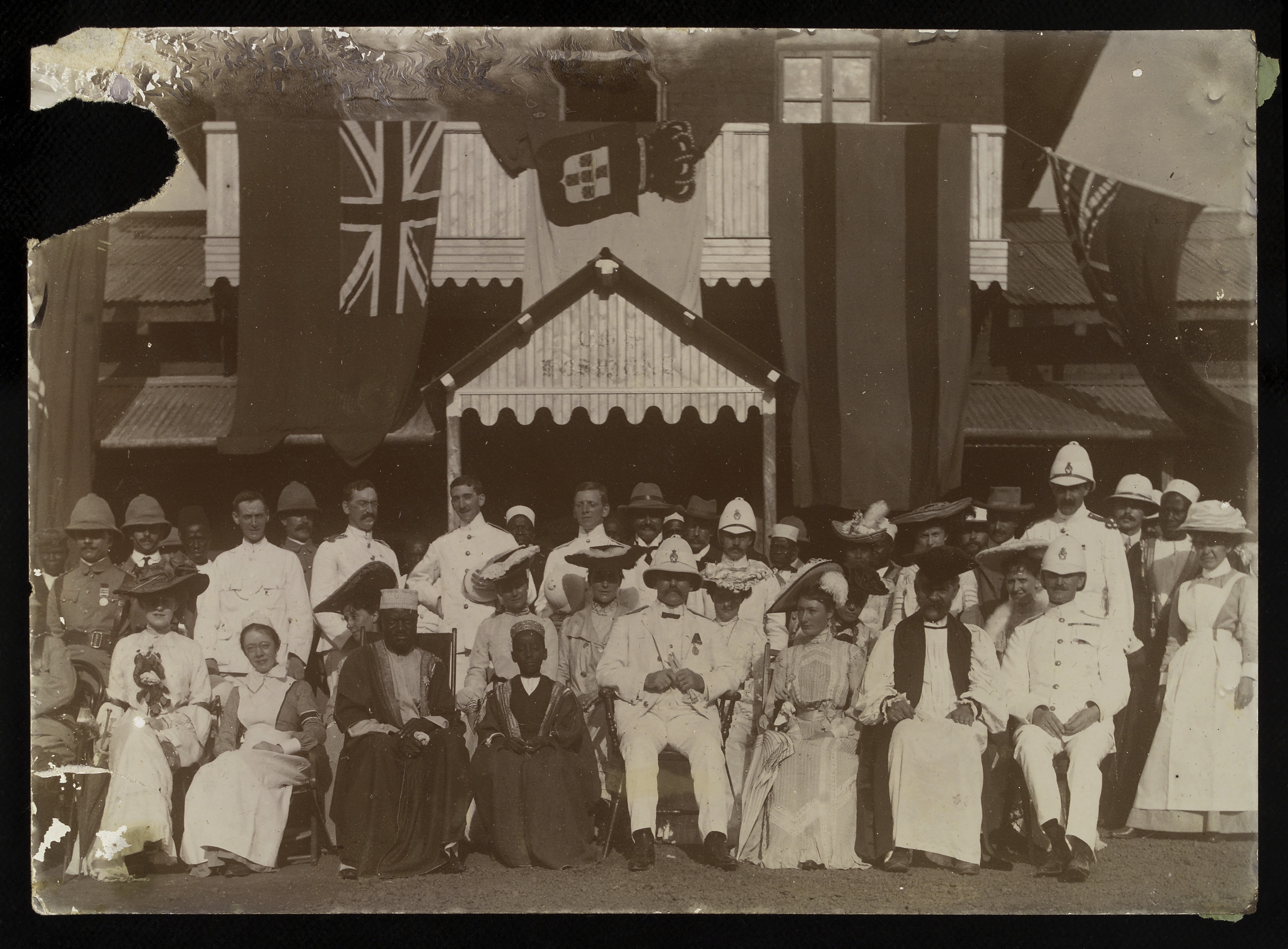 Group photo at the opening of the new Mengo Hospital, Uganda, after its destruction by lightning. Group includes Sir Albert (Ruskin) Cook, Lady Katherine Cook and the Acting Commissioner of Uganda Archives & Manuscripts Keywords: Church Missionary Society; Kampala; Colonial; Africa; Albert Ruskin Cook; Flags; Uganda; Missionary Medicine; Hospitals; Celebration